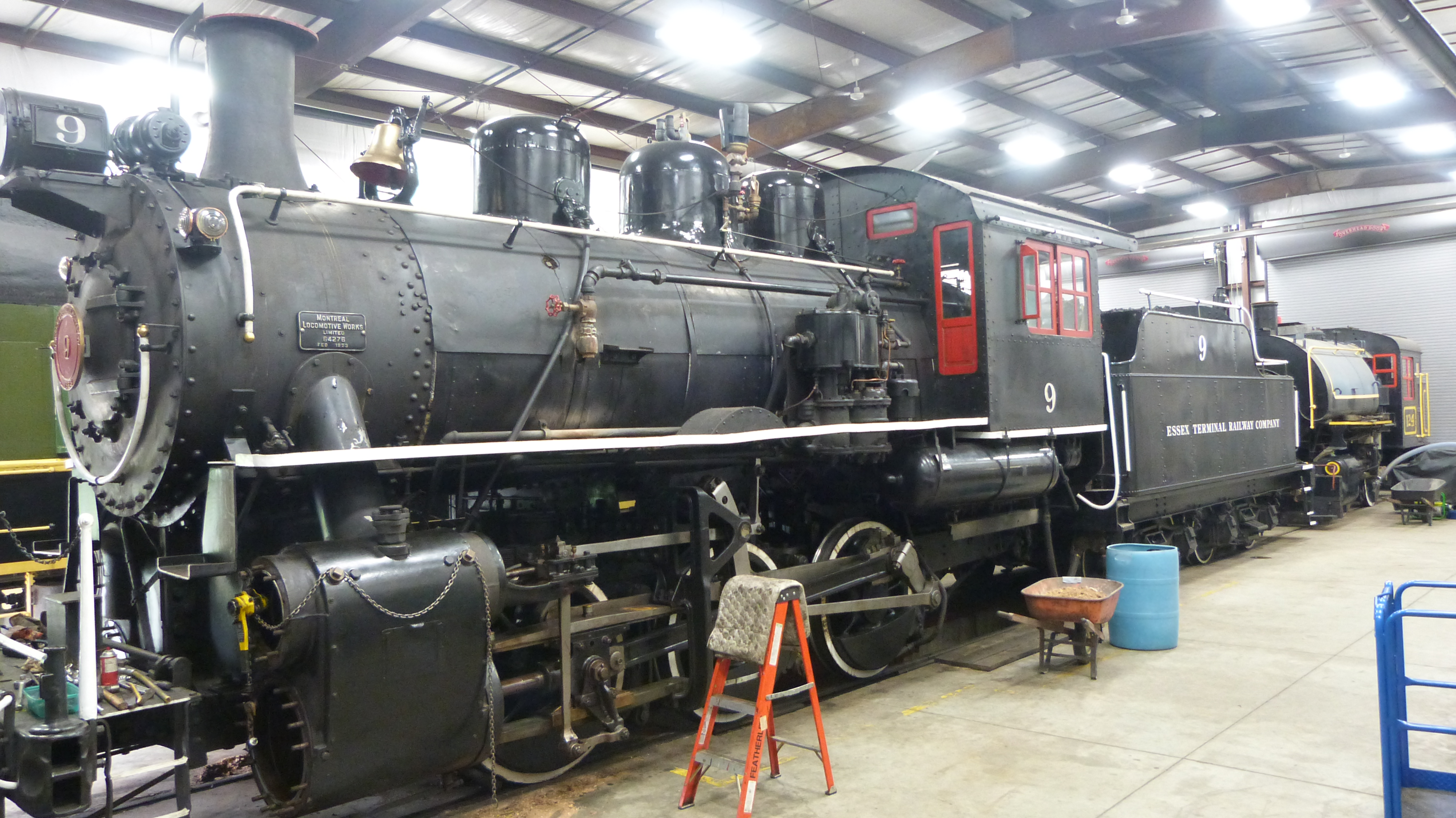 Essex Terminal Railway No 9 was built in 1923 and is currently the main steam engine on the Waterloo Central Railway.